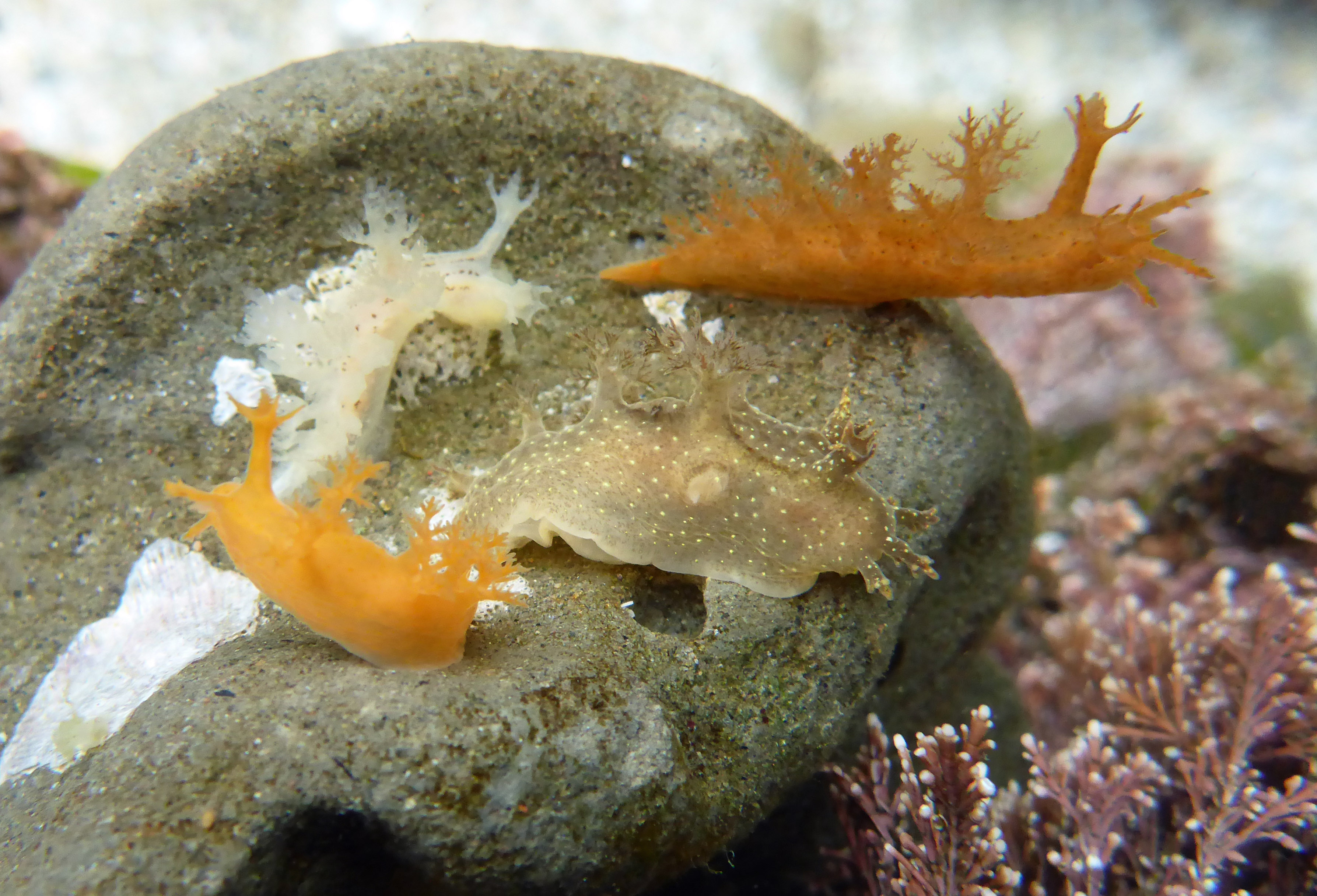 Dendronotus subramosus color variations from Pillar Point, California